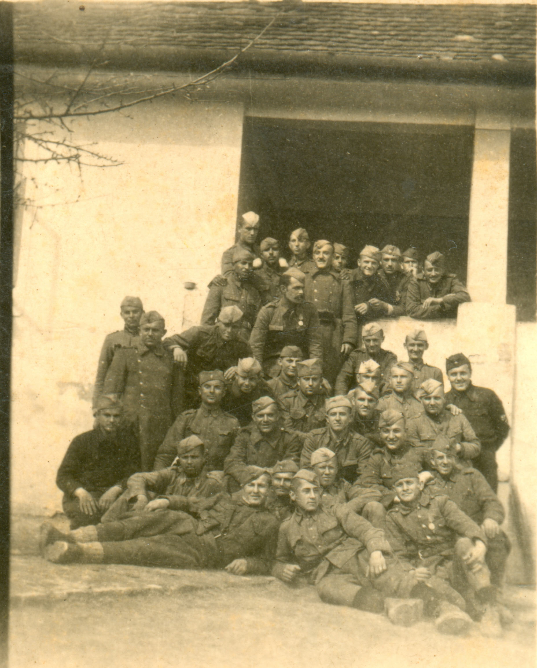 A group of partisans in Nestin in Srem Srpski (latinica): Grupa partizana u Neštinu u Sremu